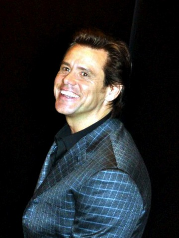 Jim Carrey at the Cannes film festival